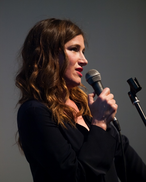 Kathryn Hahn with a microphone